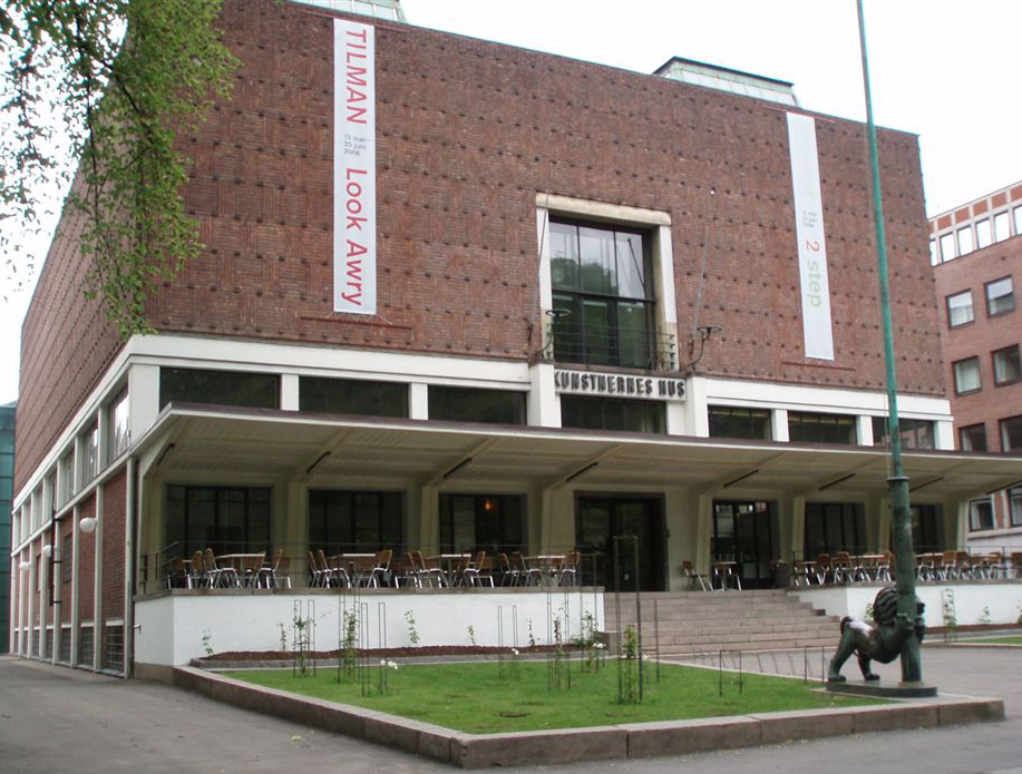 Kunstnernes Hus (=The artists' house); an art gallery in Oslo. Architect: Gudolf Blakstad and Herman Munthe-Kaas. The building was erected in 1930. It is located close to the royal palace. Norsk (bokmål): Kunstnernes Hus, Oslo. Arkitekt: Gudolf Blakstad og Herman Munthe-Kaas. Bygget 1930. Viktig eksempel på funksjonalistisk arkitektur i Norge